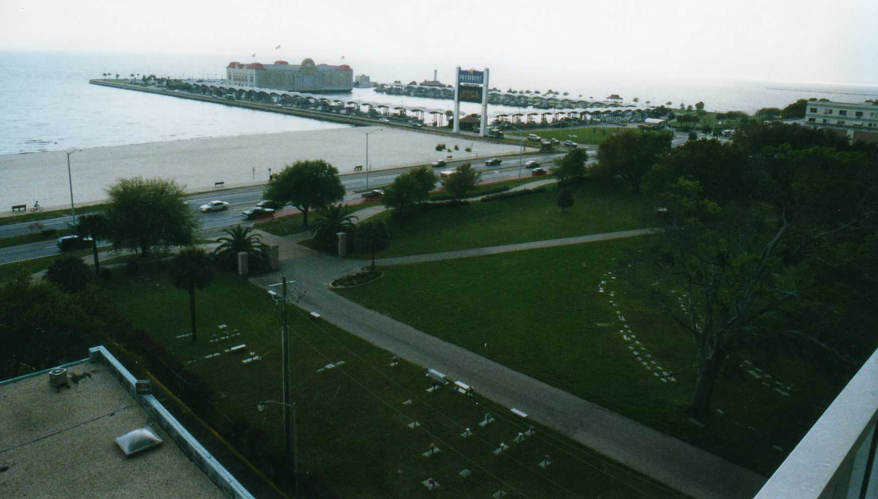 View from the President Casino Broadwater Resort, from the hotel portion towards the beach, marina, and casino portion